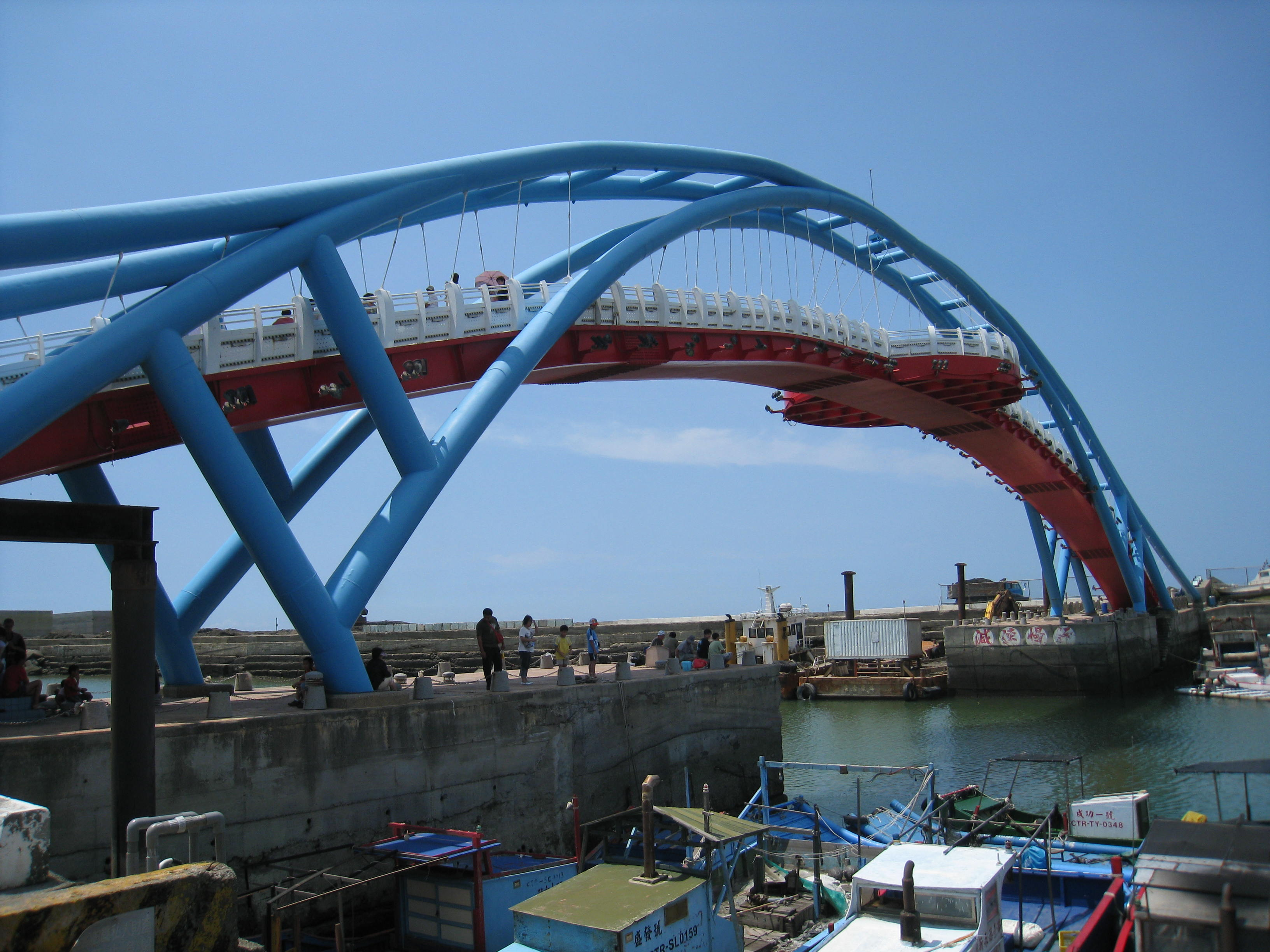 Taiwan Yong-an Fishery Harbor Ⅱ